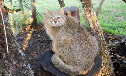 Photo of a Pampas Cat.